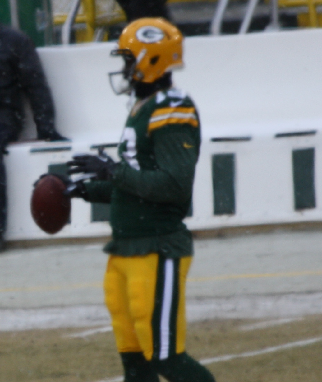 Green Bay Packers player Chris Harper practicing before the Pittsburgh Steelers game.